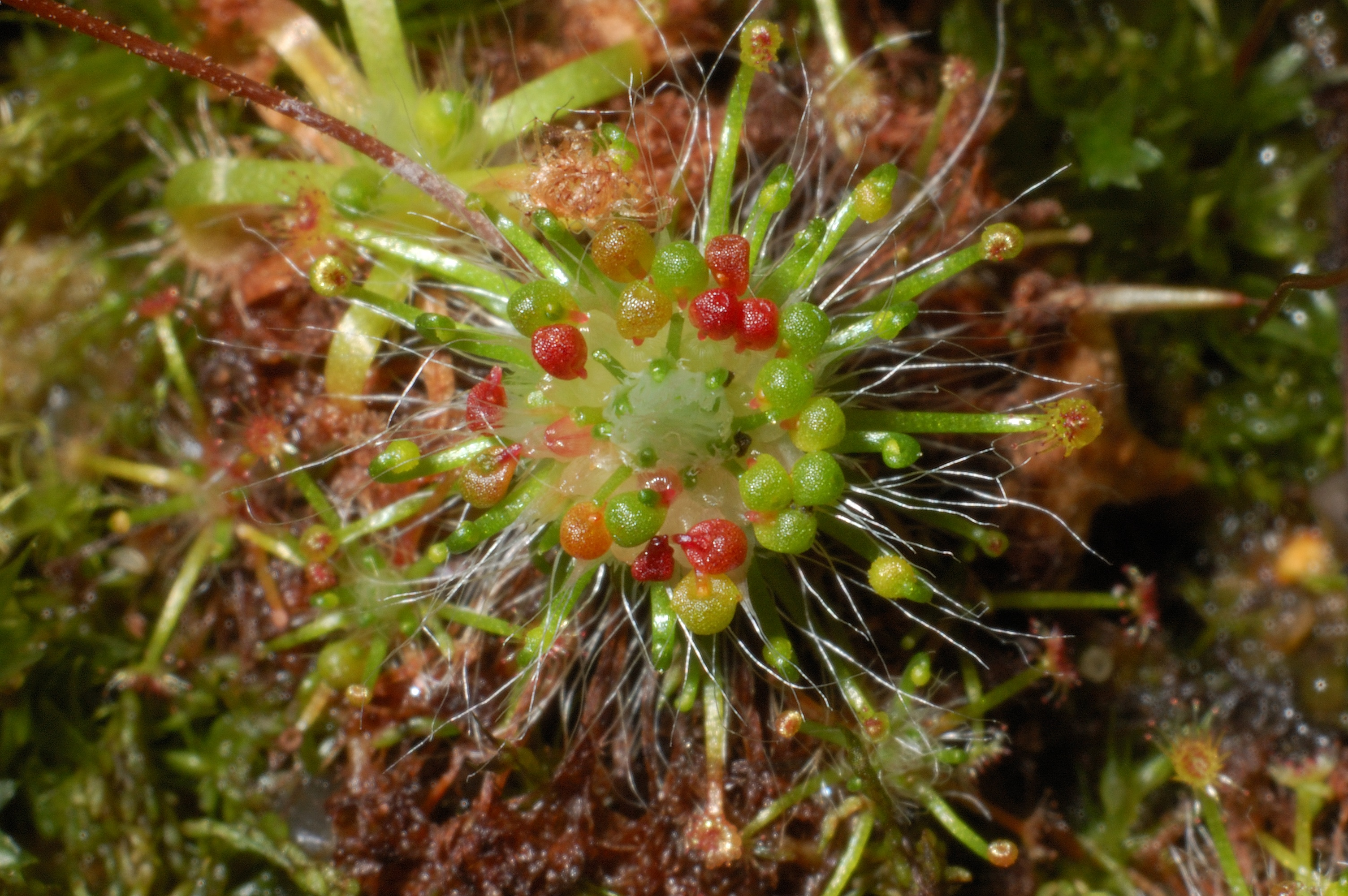 Drosera sargentii